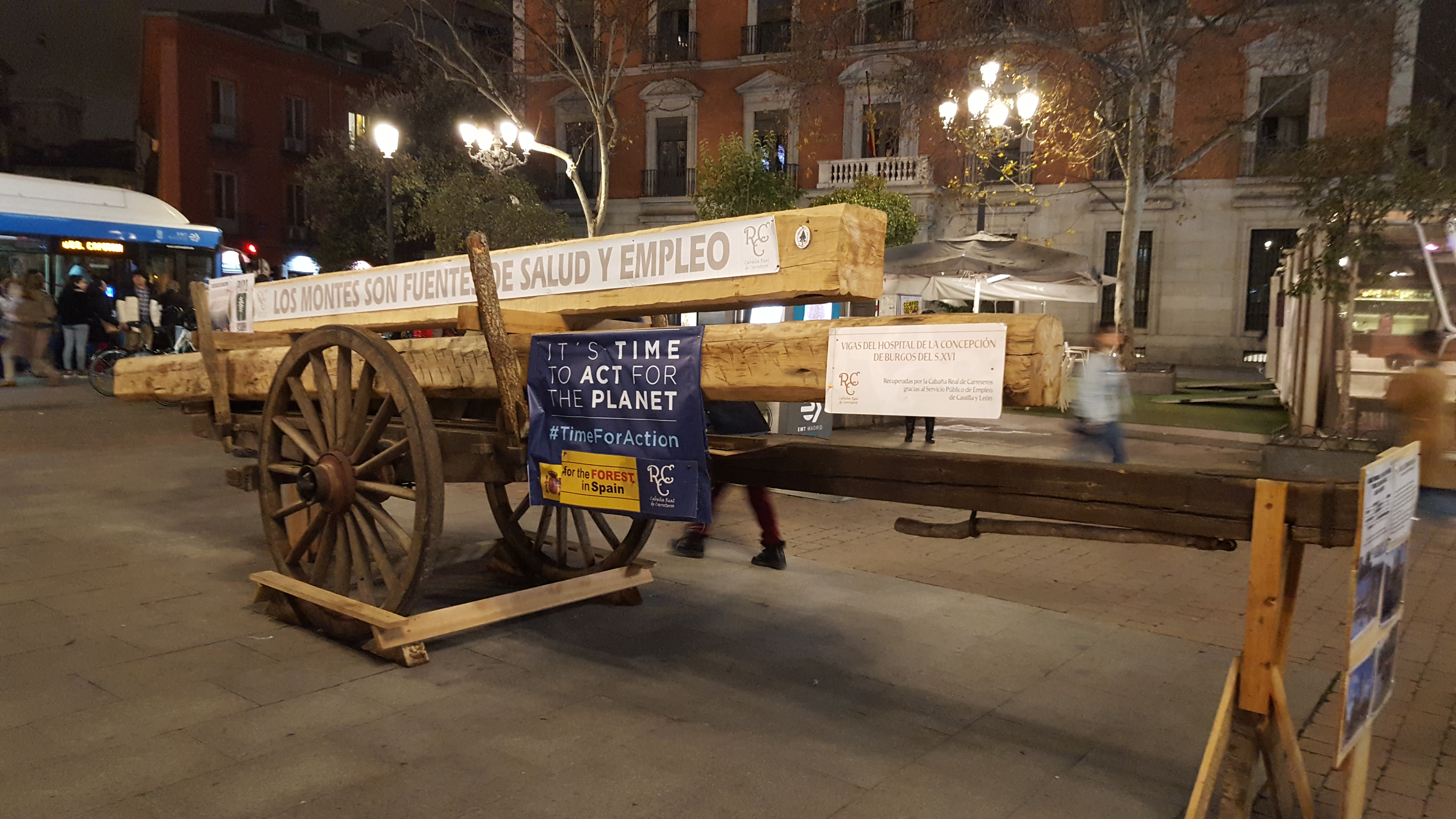 Carriage of the Cabaña Real de Carreteros, with beams recovered from the 16th century Hospital de la Concepción de Burgos thanks to the Public Employment Service of the Junta de Castilla y León, exhibited in Madrid.